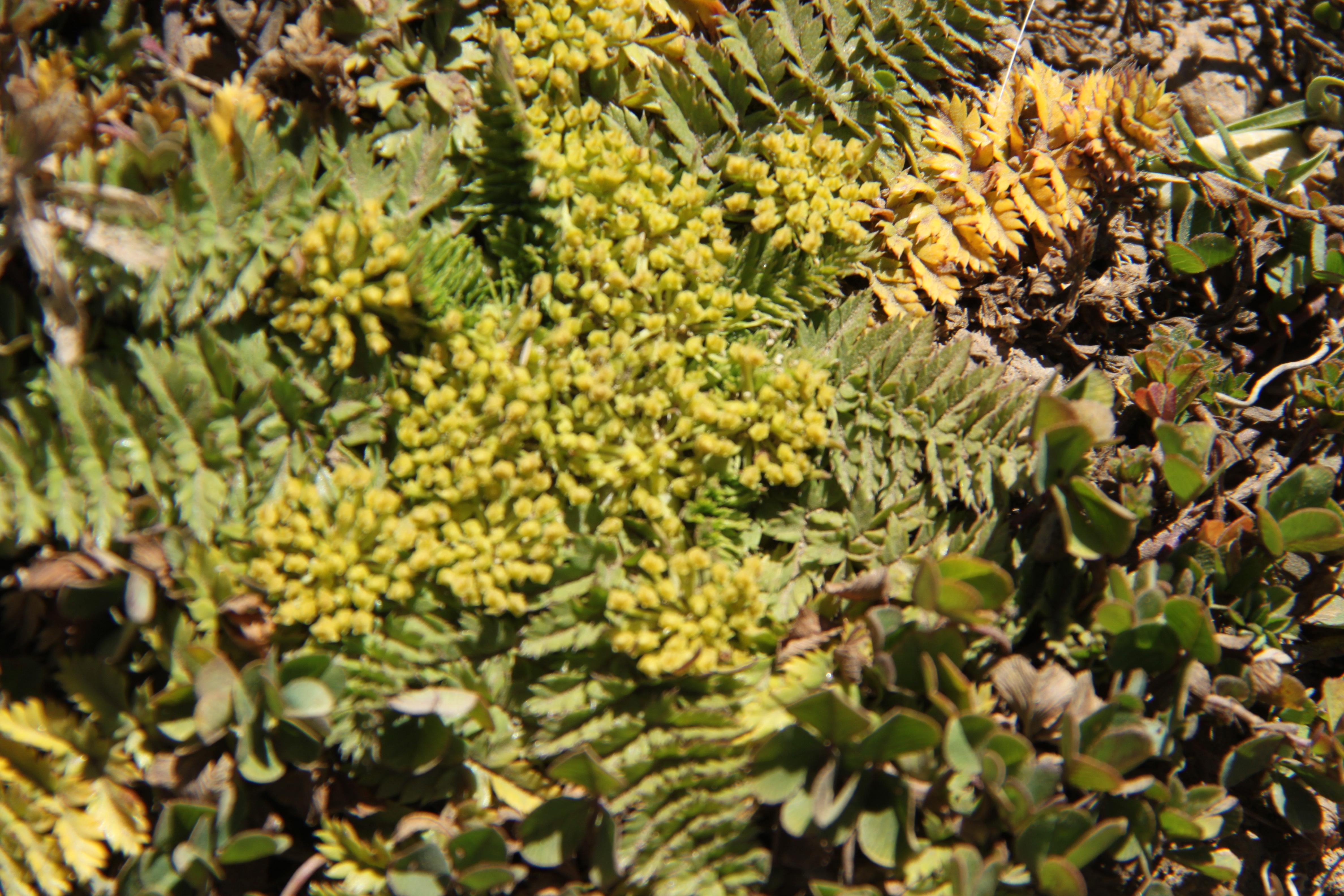 Haplosciadium abyssinicum, about 15 cm across, photographed at Chogoria gate, at approximately 2950 m altitude